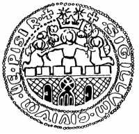 Seal of town Pyzdry, Poland